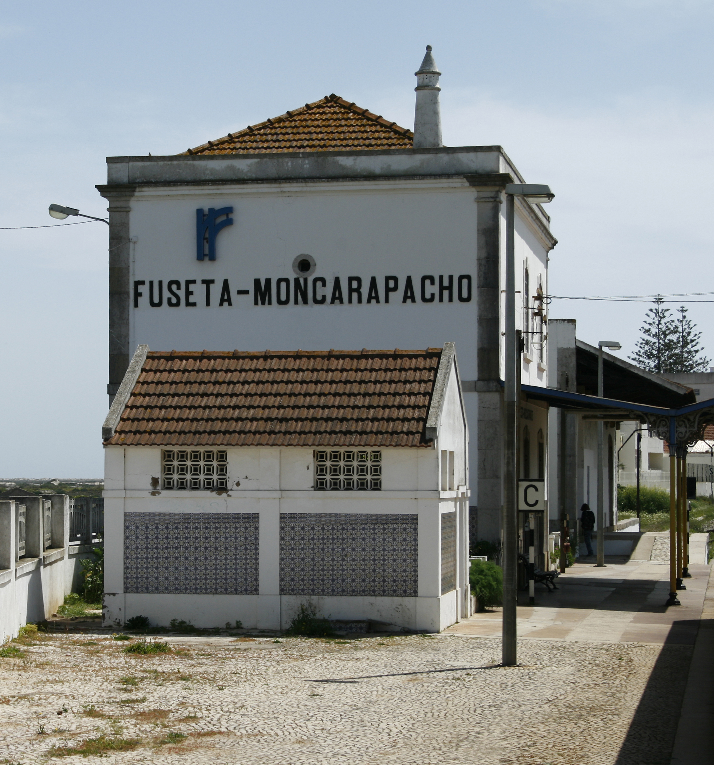 Fuzeta-Moncarapacho Train Station, in the Algarve Line, in Portugal.